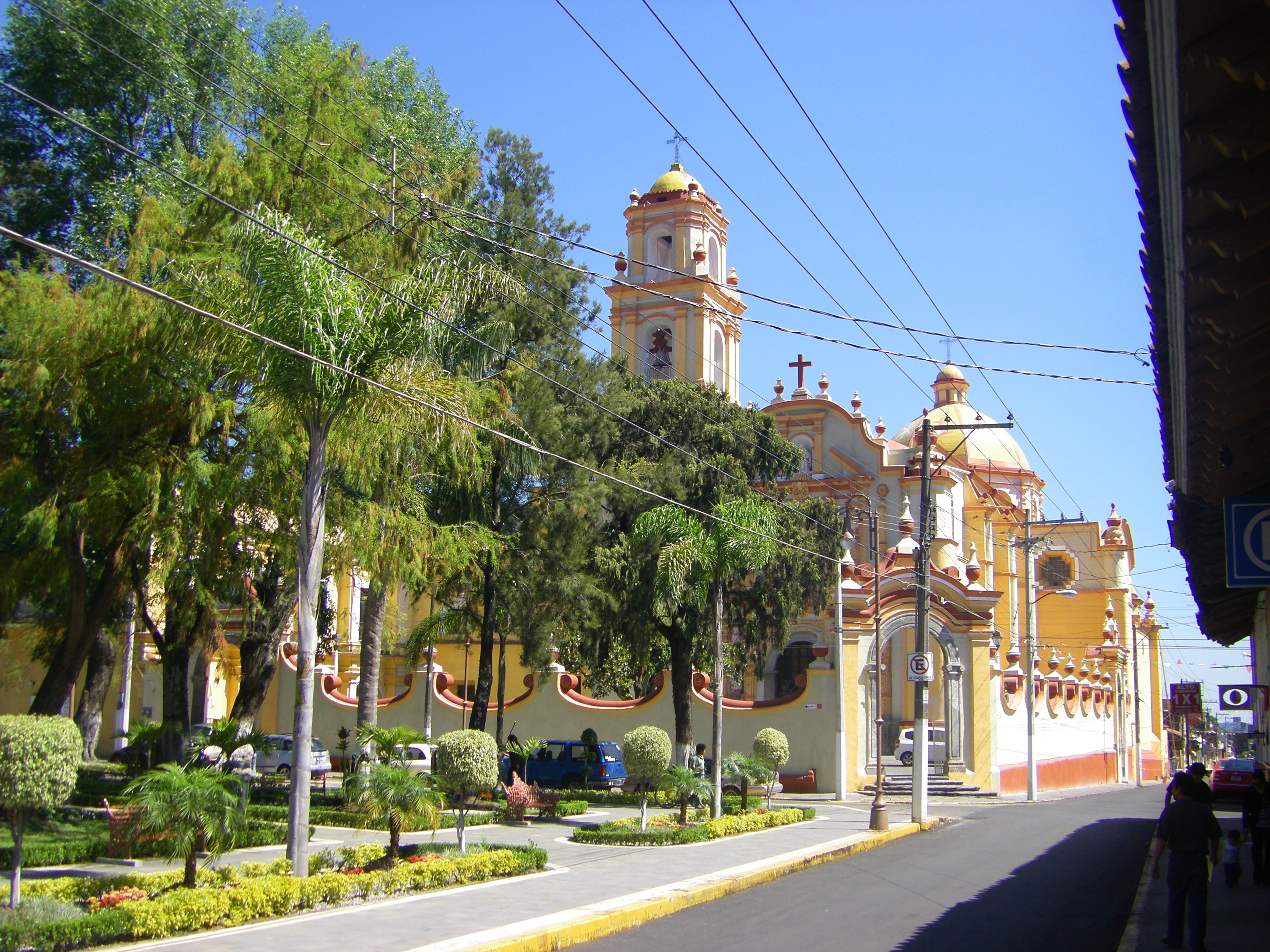 View from calle Norte 2 to the Cathedral of Orizaba, Parque Castillo on the left side